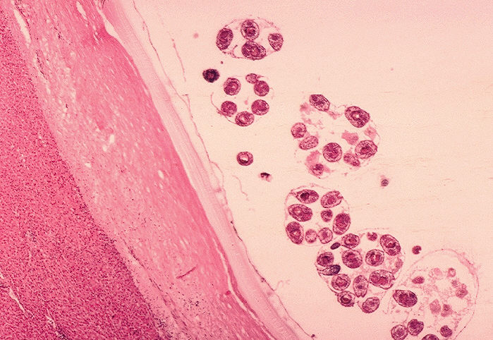 ID#: 910 Description: Histopathology of Echinococcus granulosus hydatid cyst in a sheep. Thick fibrous pericyst, hyaline ectocyst, and brood capsules filled with protoscolices are visible. Parasite. Content Providers(s): CDC/Dr.Peter Schantz Creation Date: 1975 Copyright Restrictions: None - This image is in the public domain and thus free of any copyright restrictions. As a matter of courtesy we request that the content provider be credited and notified in any public or private usage of this image.